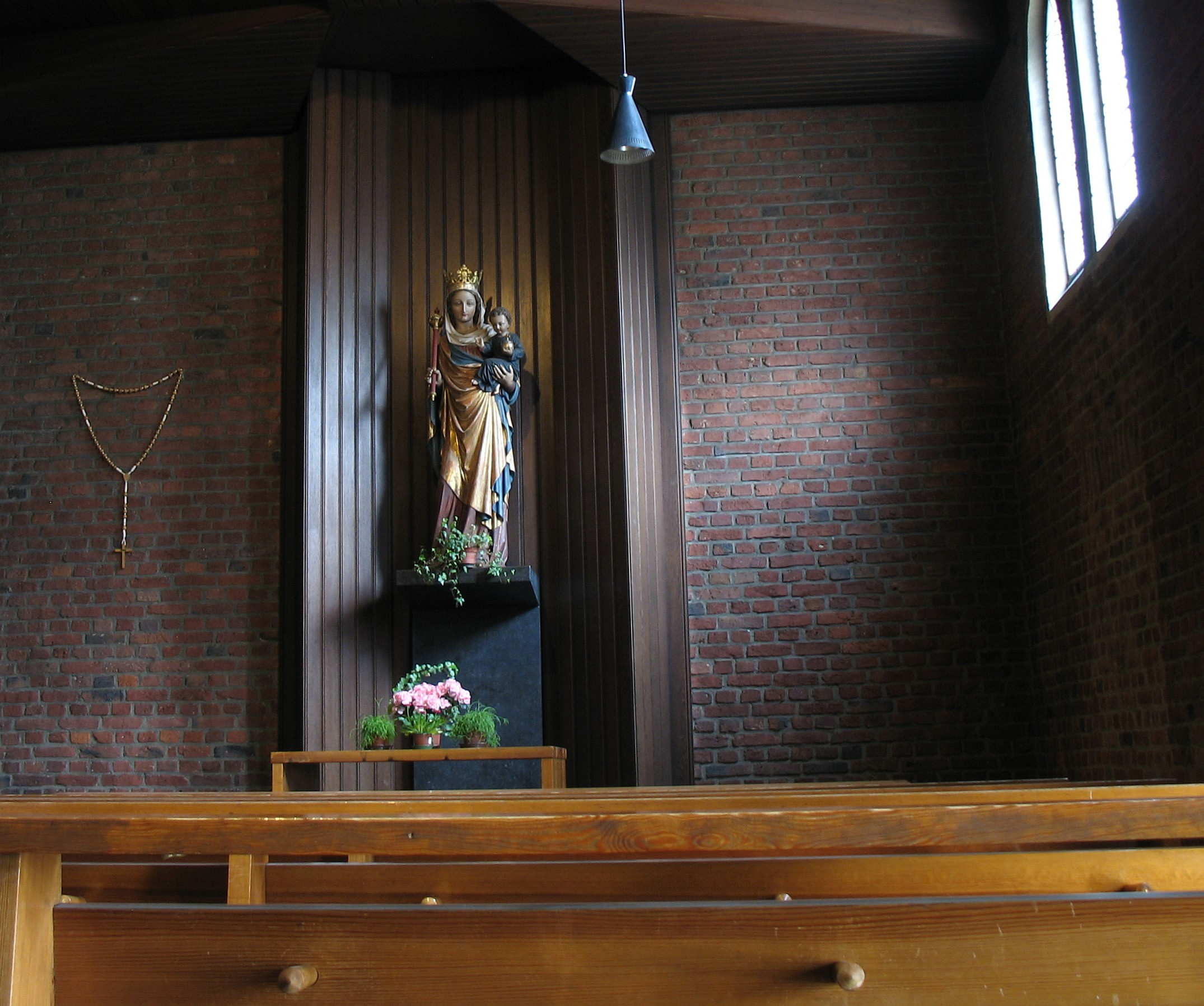 St Mary chapel besides former St Joseph church in Aachen, Germany